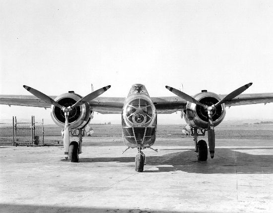 Catalog #: 00025006 Manufacturer: North American Designation: NA-40 Official Nickname: Notes: Repository: San Diego Air and Space Museum Archive